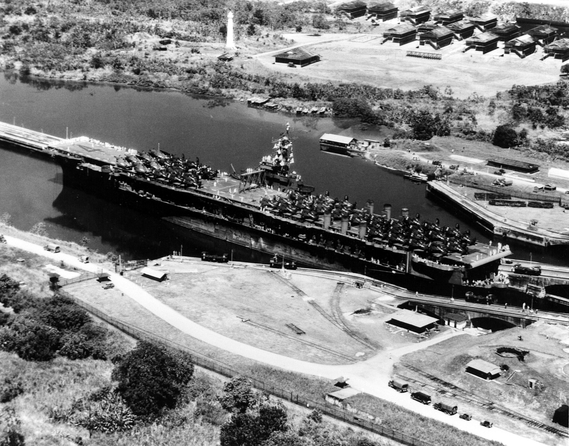 The U.S. Navy aircraft carrier USS Ranger (CV-4) transits through the Panama Canal in 1945.